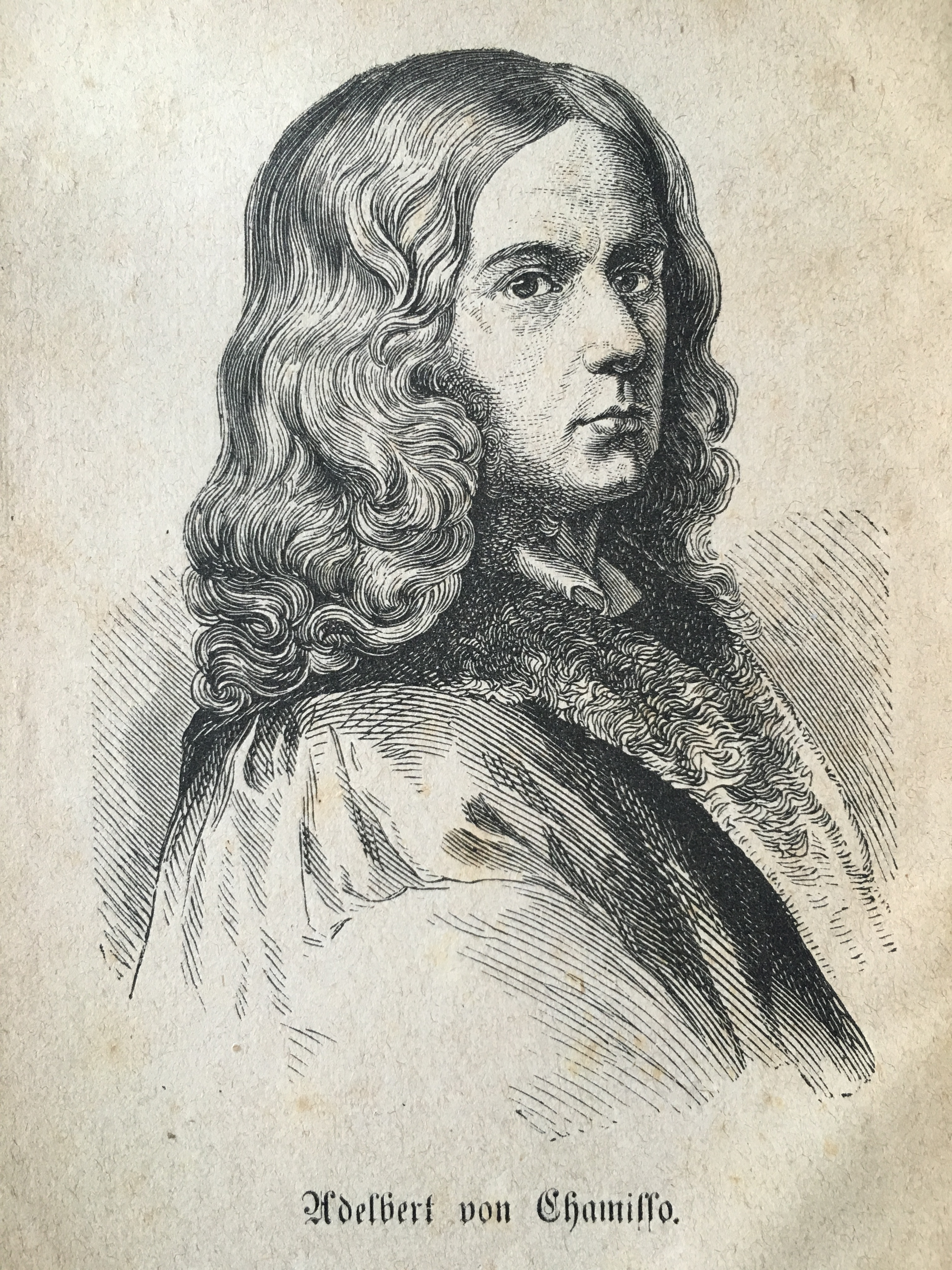 A portrait of Adelbert von Chamisso.